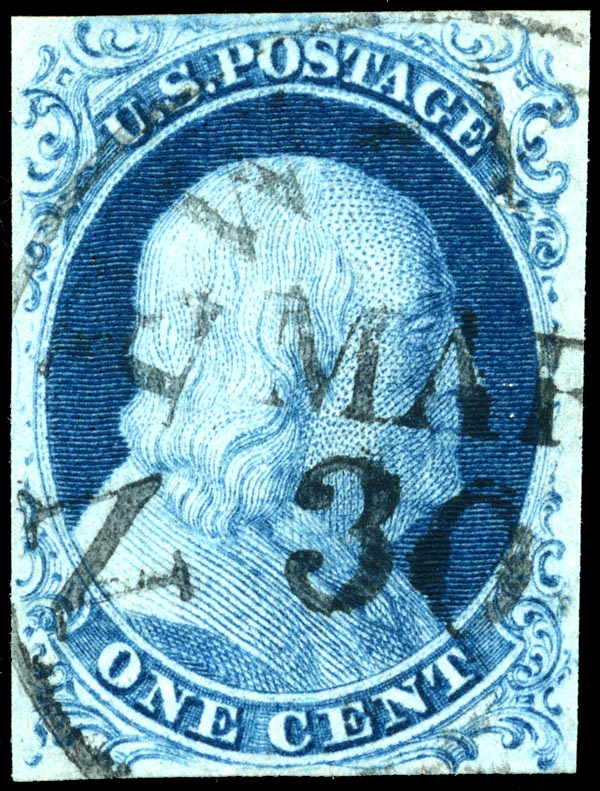 United States 1-cent postage stamp of 1851, type II